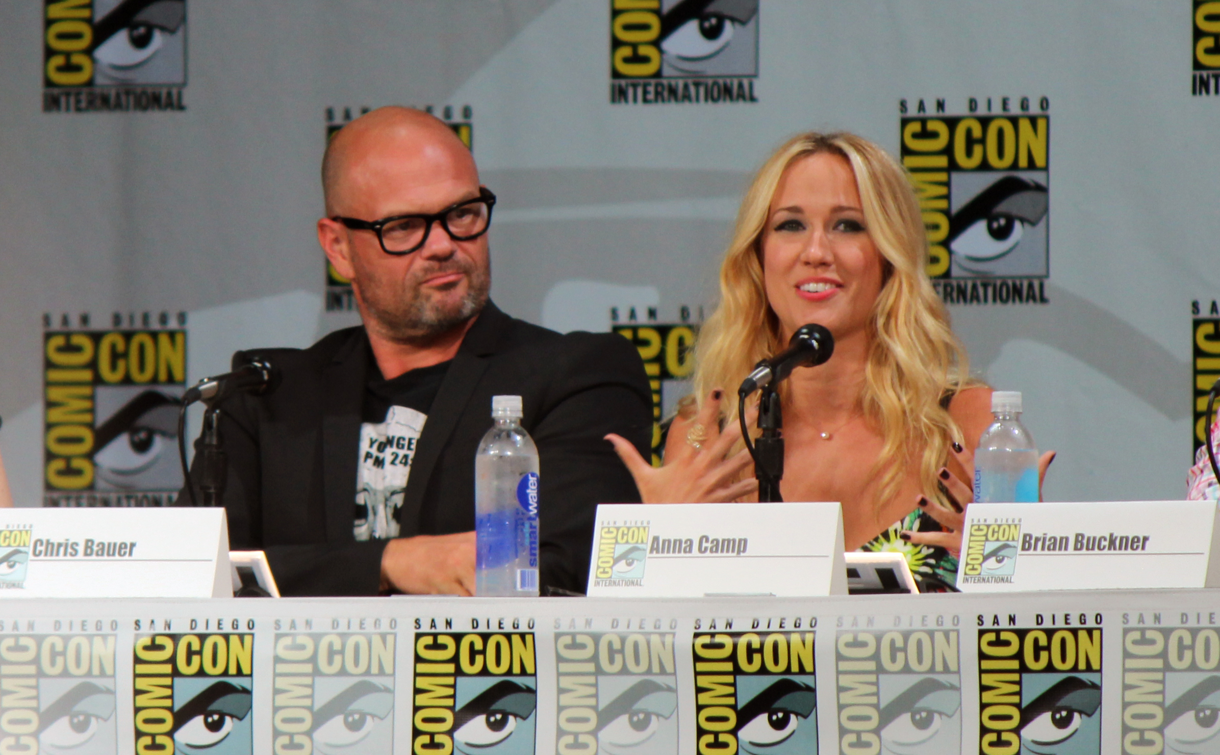 Chris Bauer and Anna Camp at the True Blood panel at the 2014 Comic-Con convention in San Diego, California.